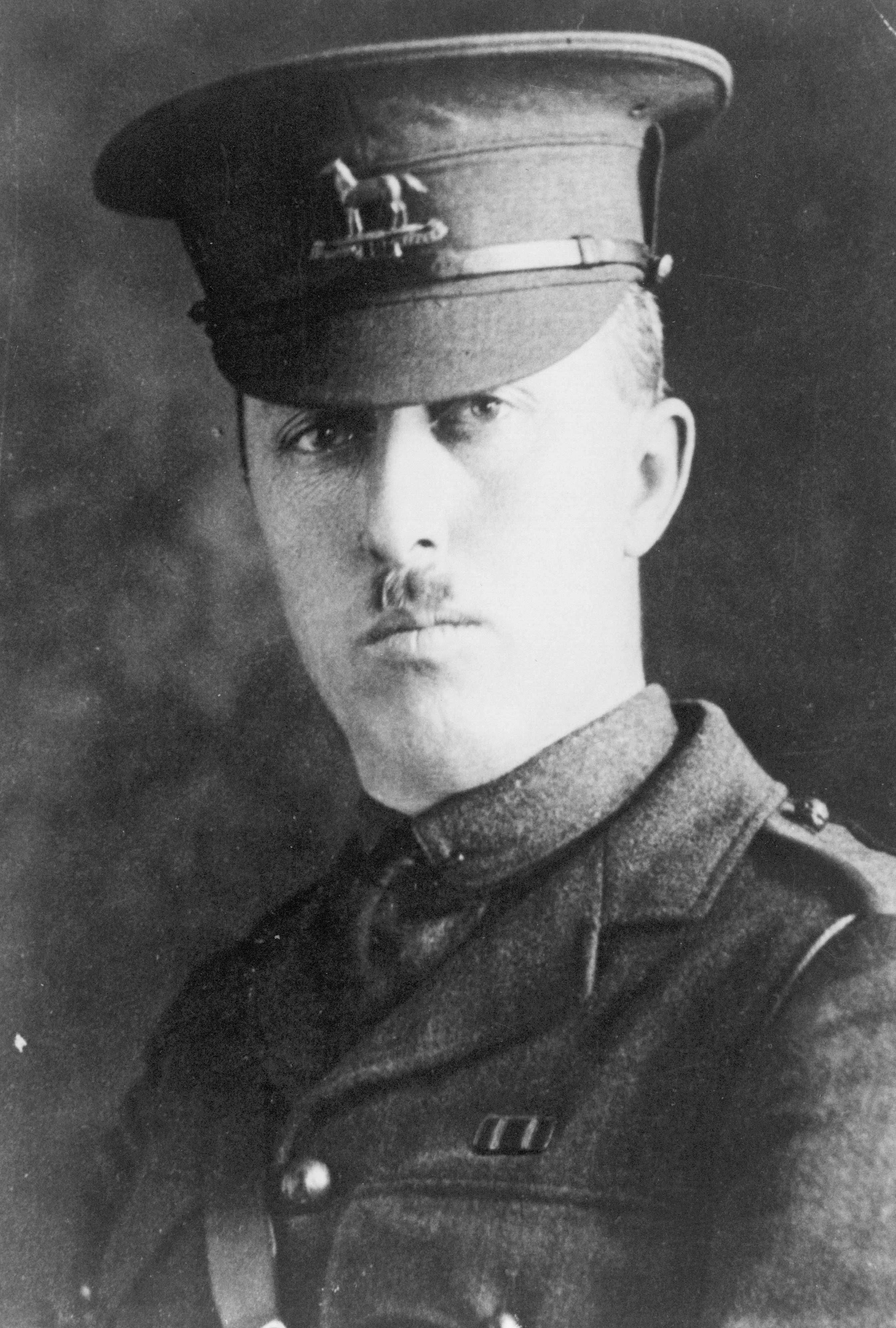 William Antrobus Griesbach, Canadian Major-General, senator, Member of Parliament